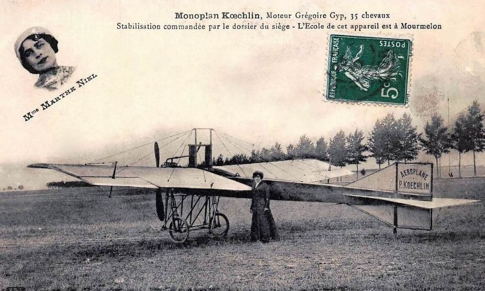 1910 original French postard which File:Marthe Niel.jpg comes from. Author unknown